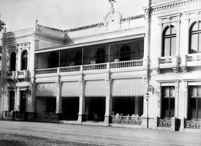 The 'Concordia' club